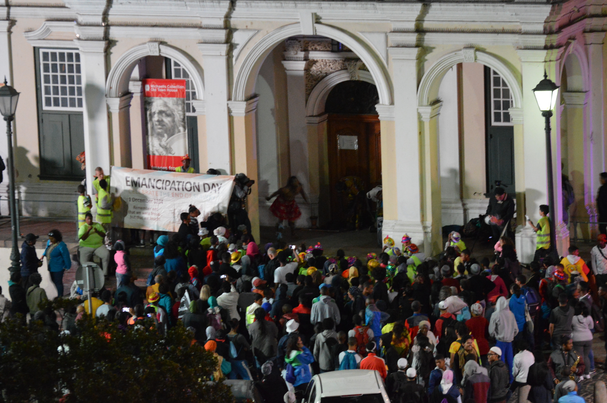 A celebration of Emancipation Day 2016 in Cape Town, South Africa.